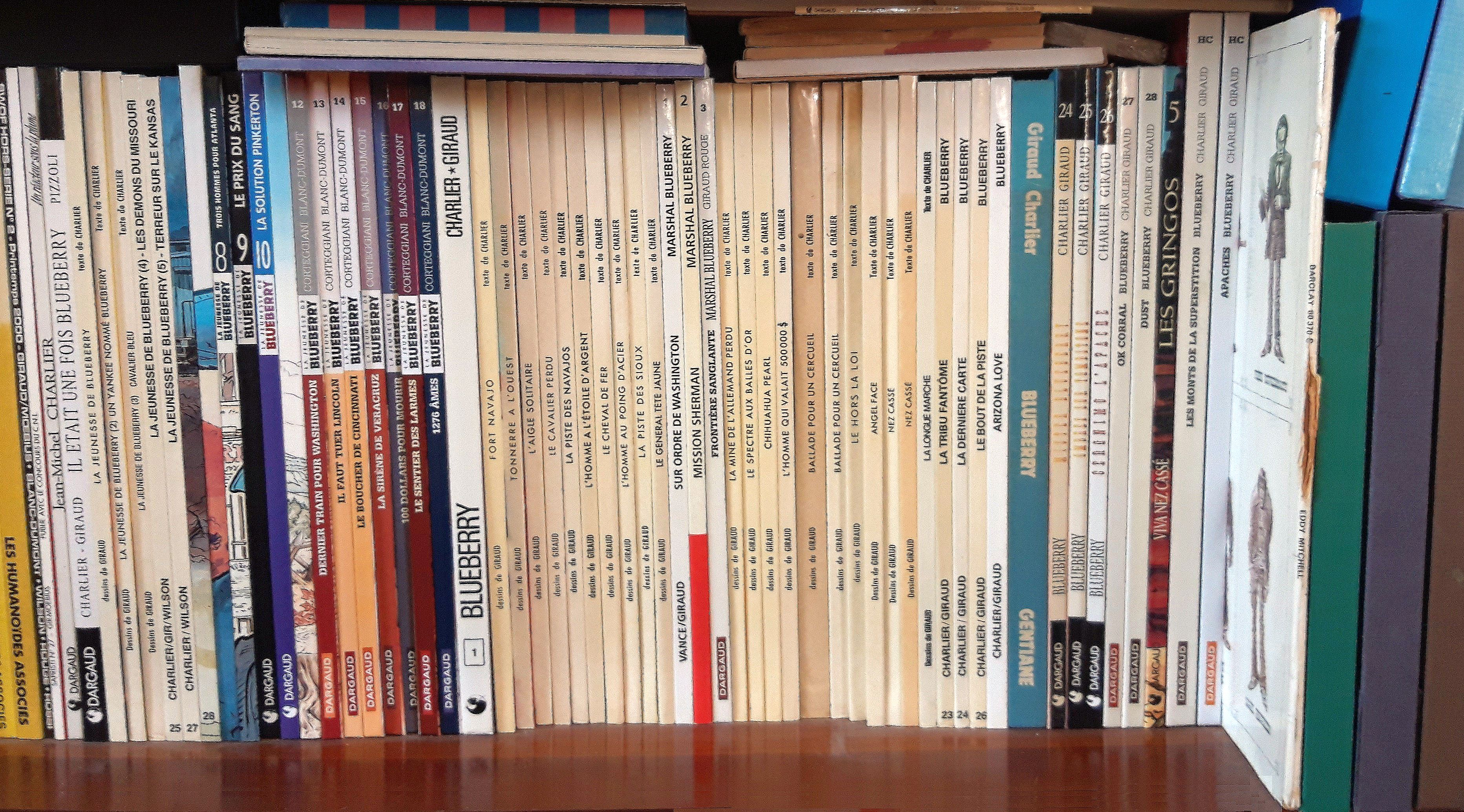 Blueberry.books